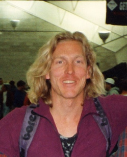 Speed climber, Hans Florine at a climbing gathering in New Hampshire in 1995